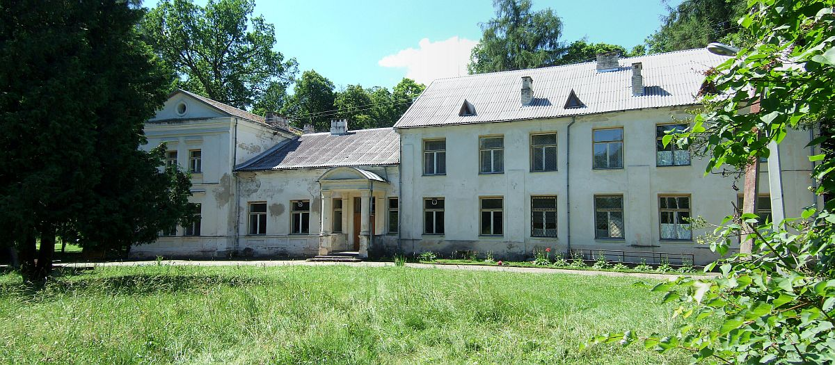 Manor house in Paneriai (Elektrėnai) (Lithuania)